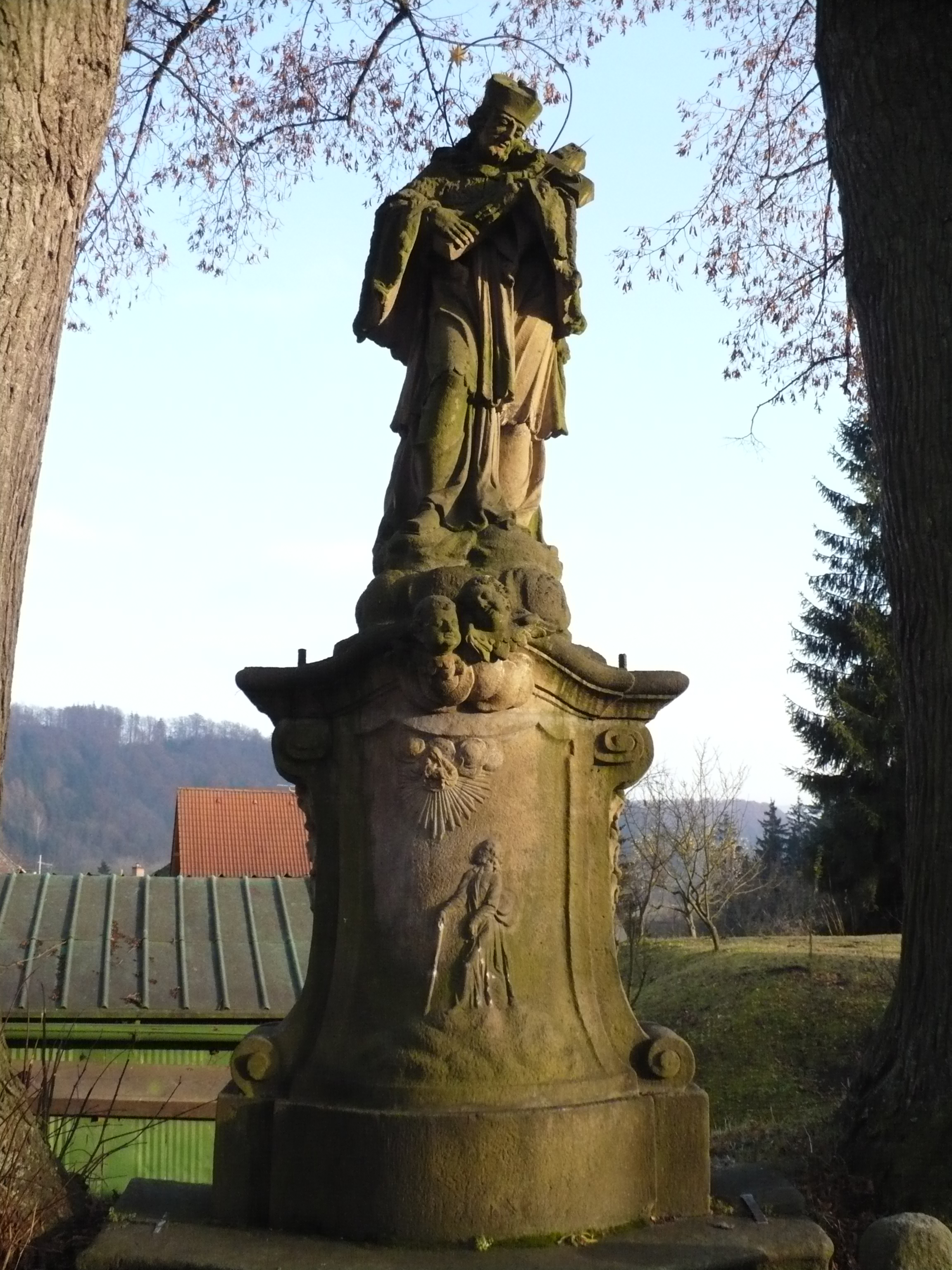 Statue of John of Nepomuk